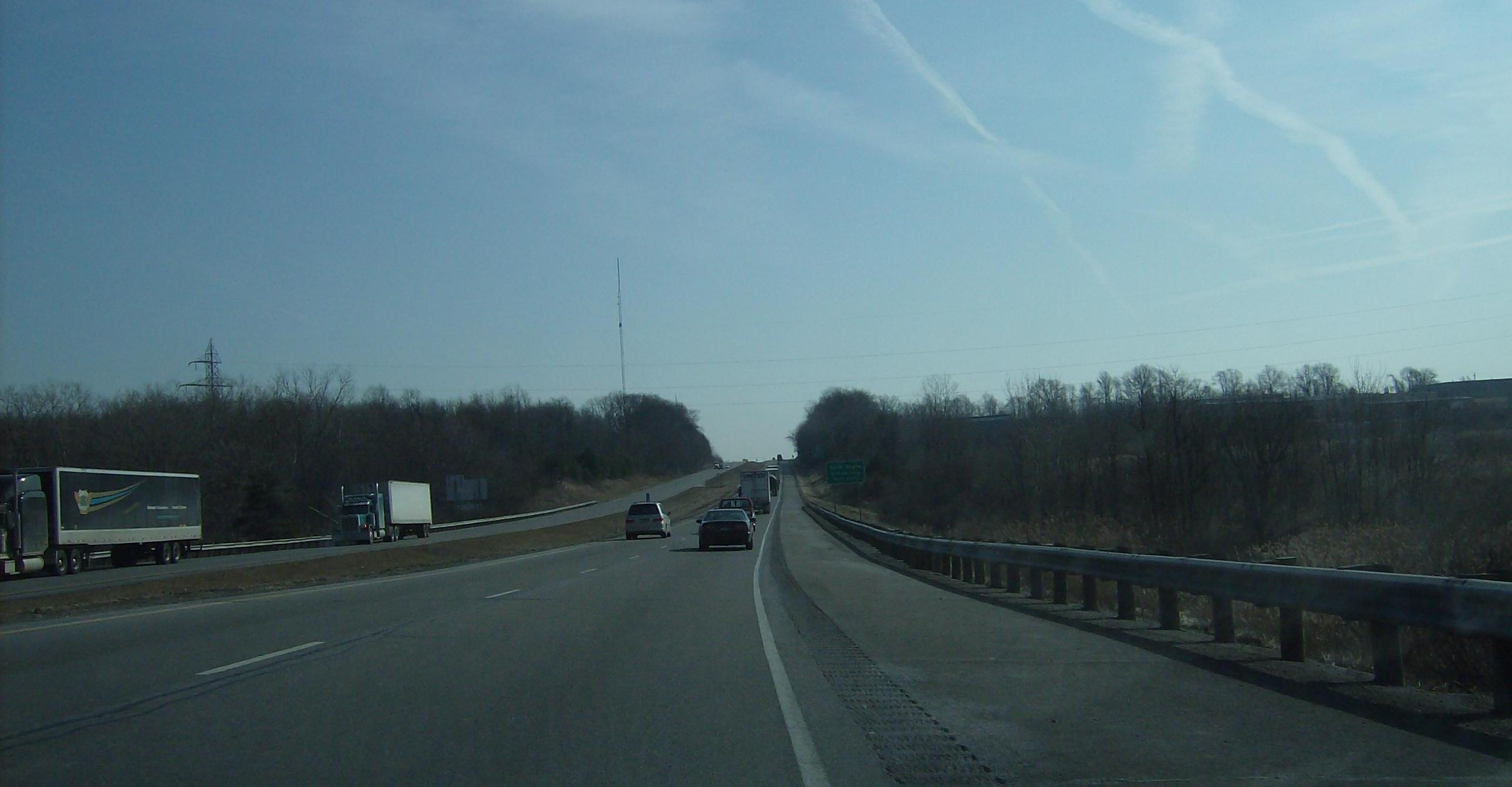 Eastbound Interstate 76 in Brimfield Township, Portage County, Ohio, United States.